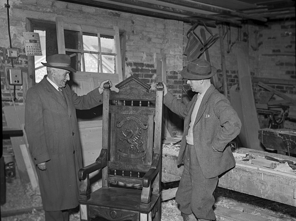 Teitl Cymraeg/Welsh title: Cadair Eisteddfod Môn 1959. Ffotograffydd/Photographer: Geoff Charles (1909-2002) Dyddiad/Date: 01/05/1959 Cyfrwng/Medium: Negydd ffilm / Film negative Cyfeiriad/Reference: (gch20329) Rhif cofnod / Record no.: 3470272 Rhagor o wybodaeth am gasgliad Geoff Charles yn Llyfrgell Genedlaethol Cymru More information about the Geoff Charles Collection at the National Library of Wales Mae ffotograffau Geoff Charles hefyd yn rhan o Broject Europeana Libraries Geoff Charles' photographs also form part of the Europeana Libraries Project